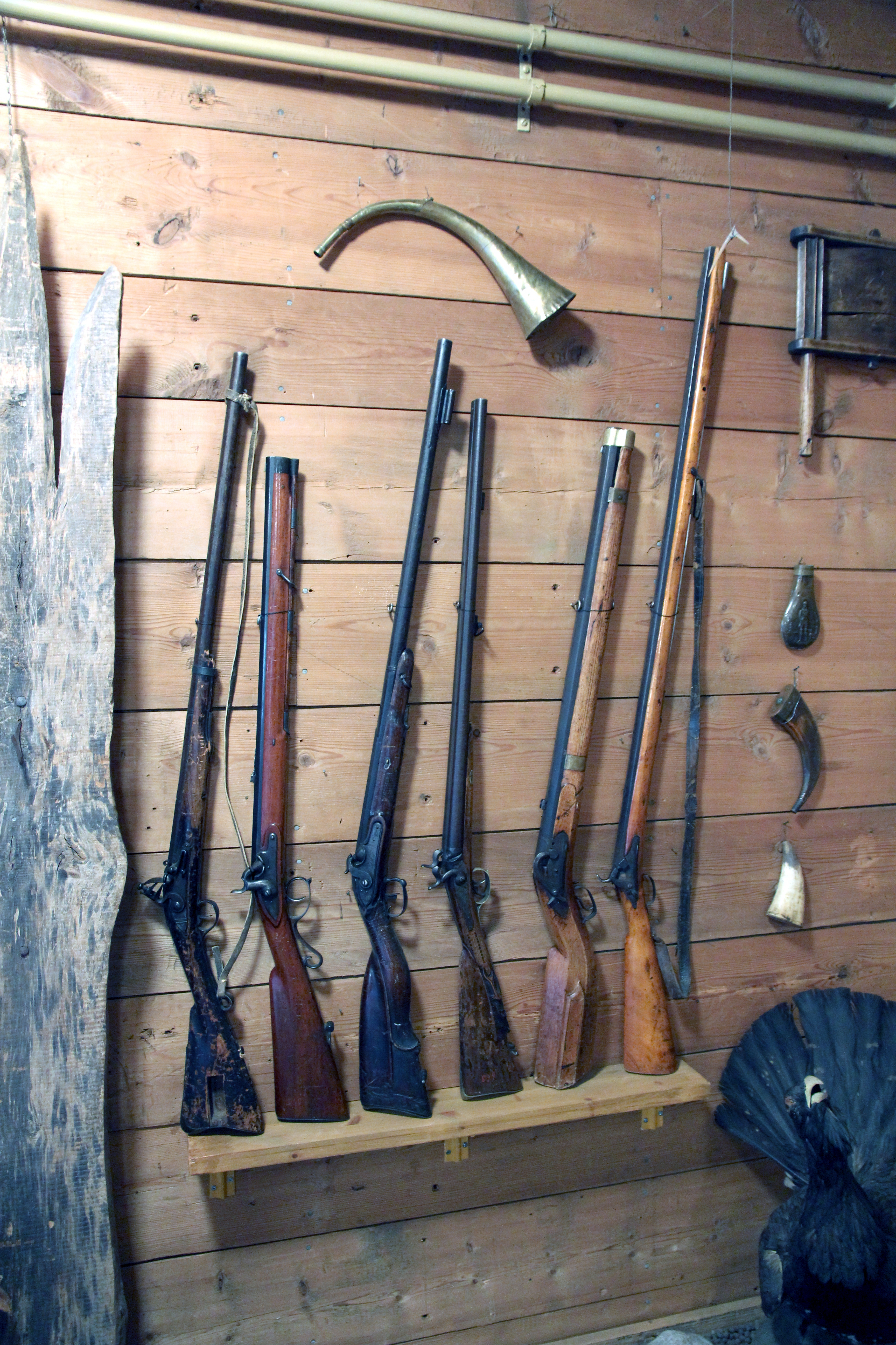 Old flintlock(?) hunting rifles(?) in Suur-Savo museum.